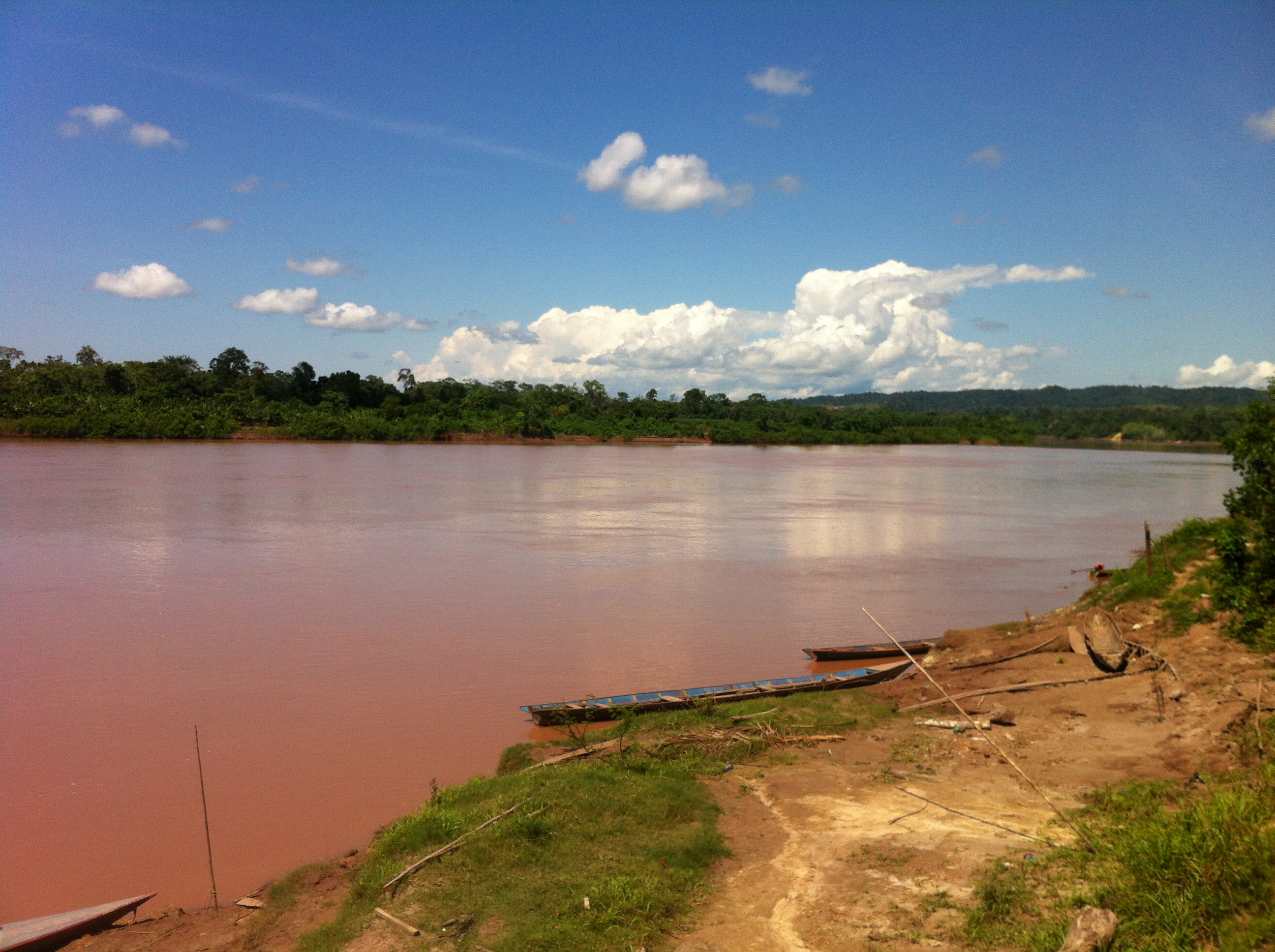 Boats on the banks of the Rio Pachitea